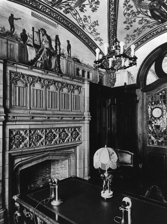 Interior, Chateau Dufresne, Sherbrooke Street, Montreal, QC, about 1930; About 1975, 20th century; Silver salts on paper - Gelatin silver process; 26 x 20 cm; Gift of M. Luc d'Iberville-Moreau; MP-1978.211.16; McCord Museum